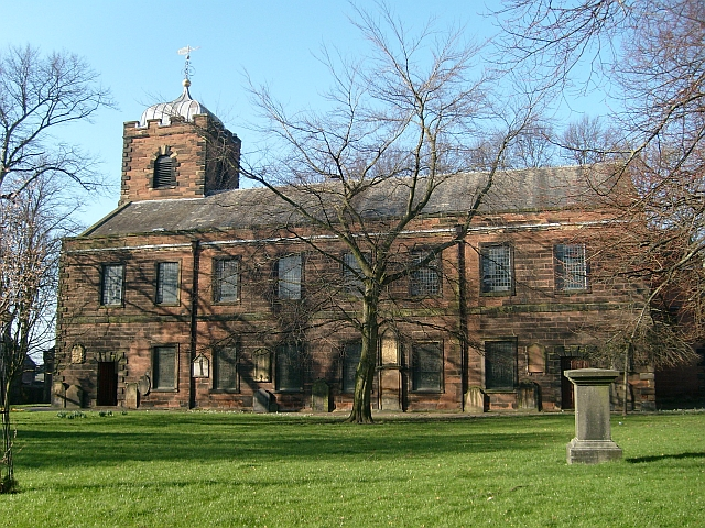 St Cuthbert's parish church, Carlisle, Cumbria, seen from the southeast